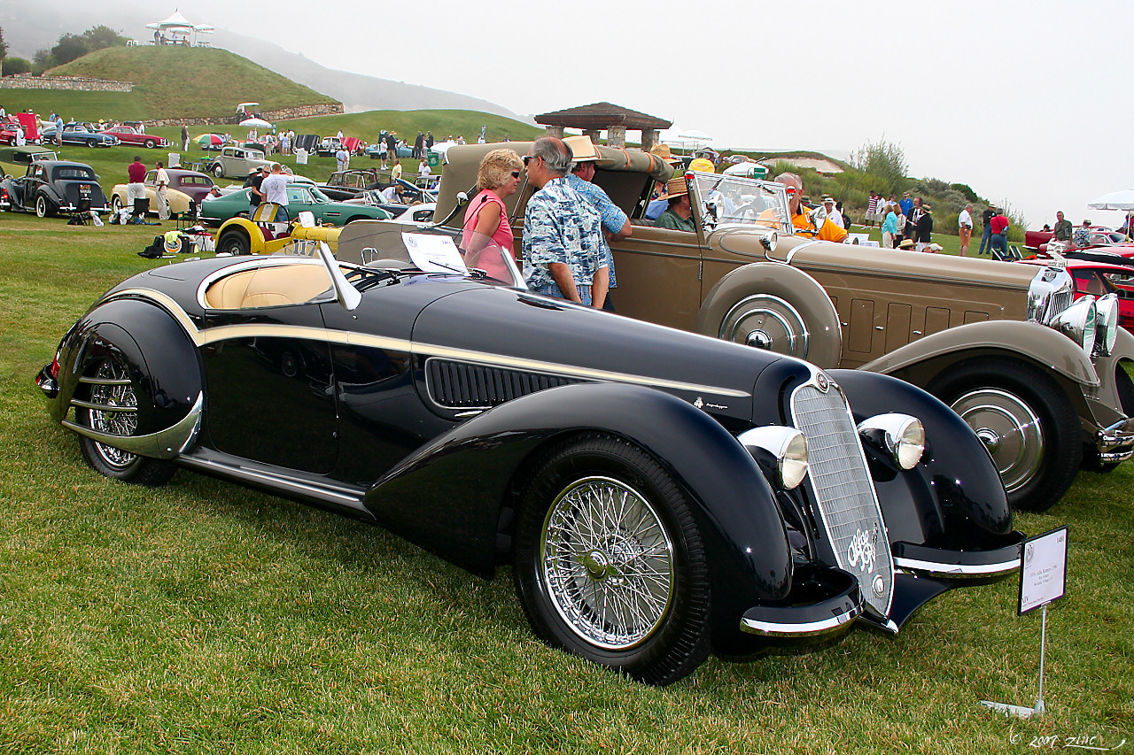 Palos Verdes Concours d'Elegance Sep 15 2007 1938 Alfa Romeo 8C 2900B Touring Spider